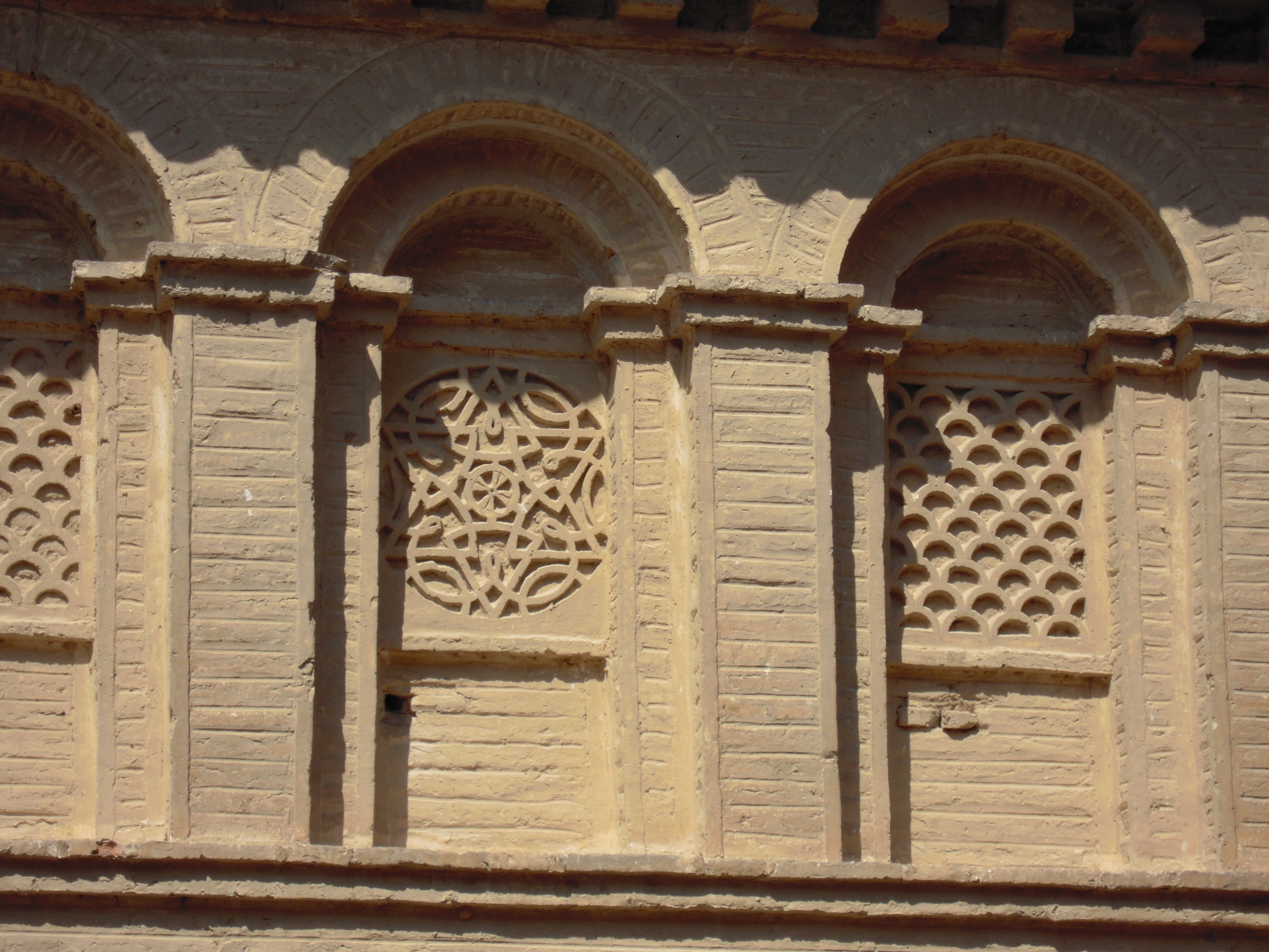 Set in detail for several of the galleries in arch with plaster lattice Mudejar style of the convent of the Immaculate Conception of Épila, province of Zaragoza in the community of Aragon in Spain and Europe.